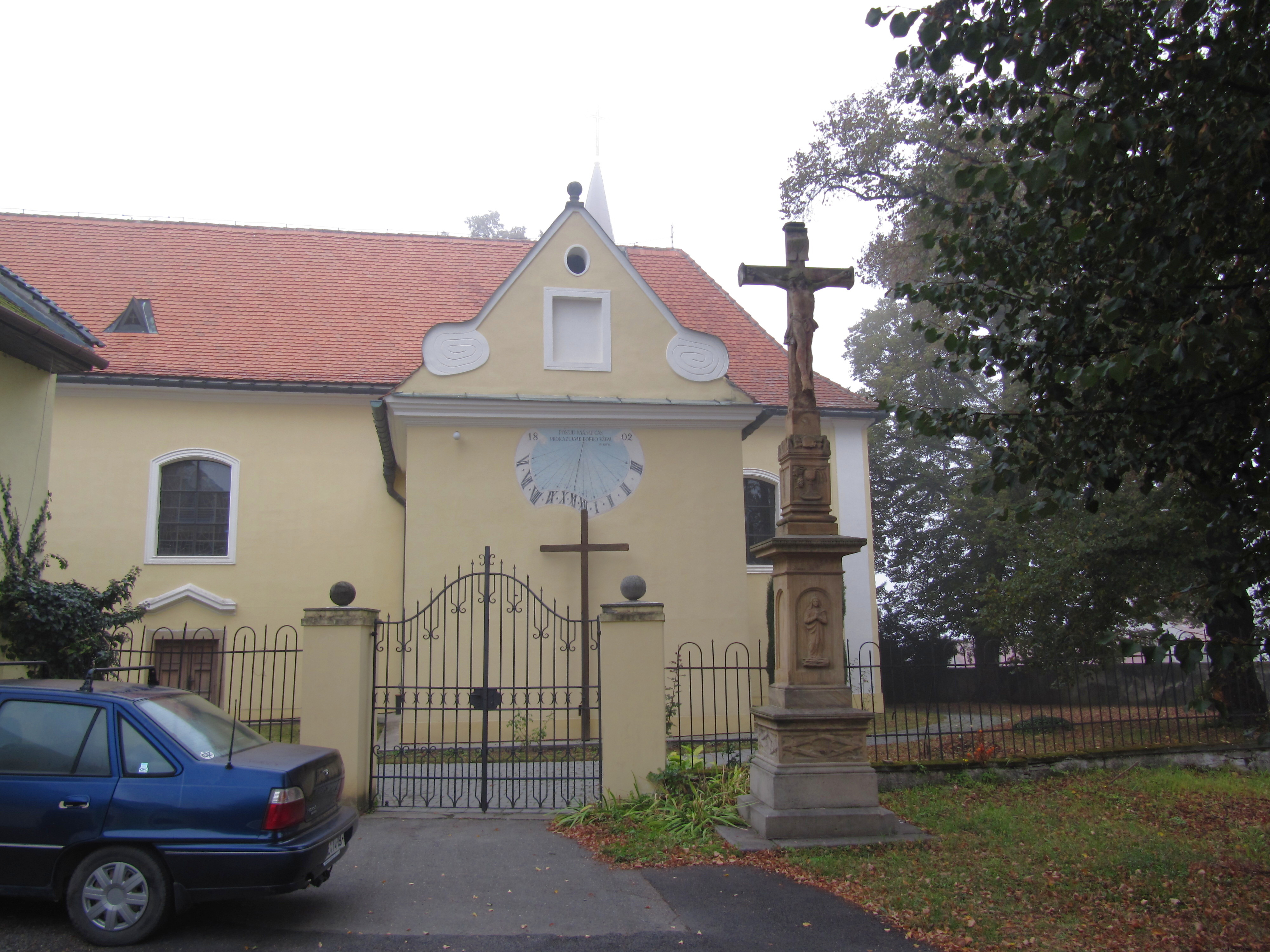 Kroměříž, Czech Republic, part Těšnovice. Church of St. Peter and Paul, sundial dated 1802.